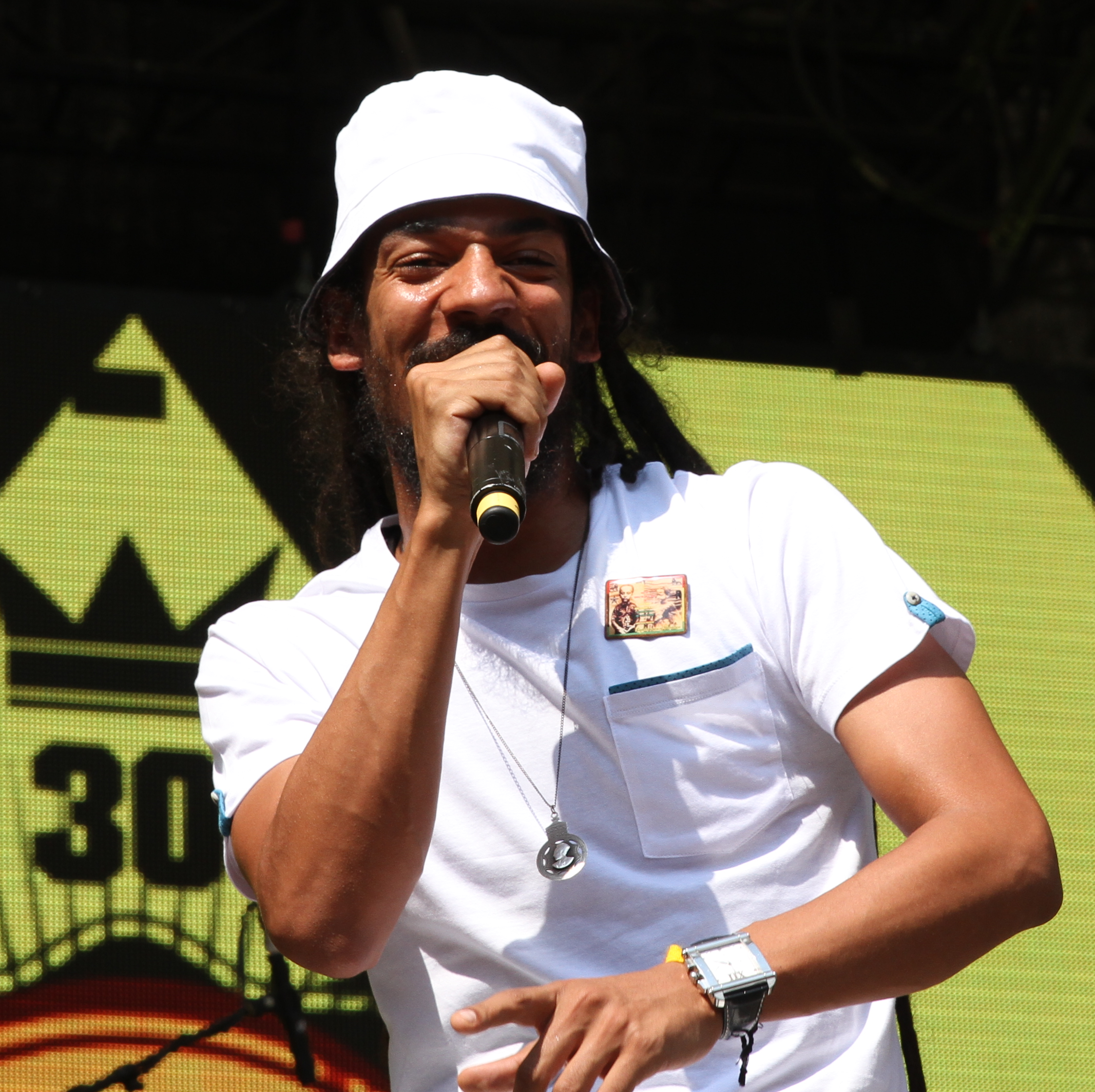 Cali P with his band performing on green stage at the Summerjam Festival 2015, Cologne